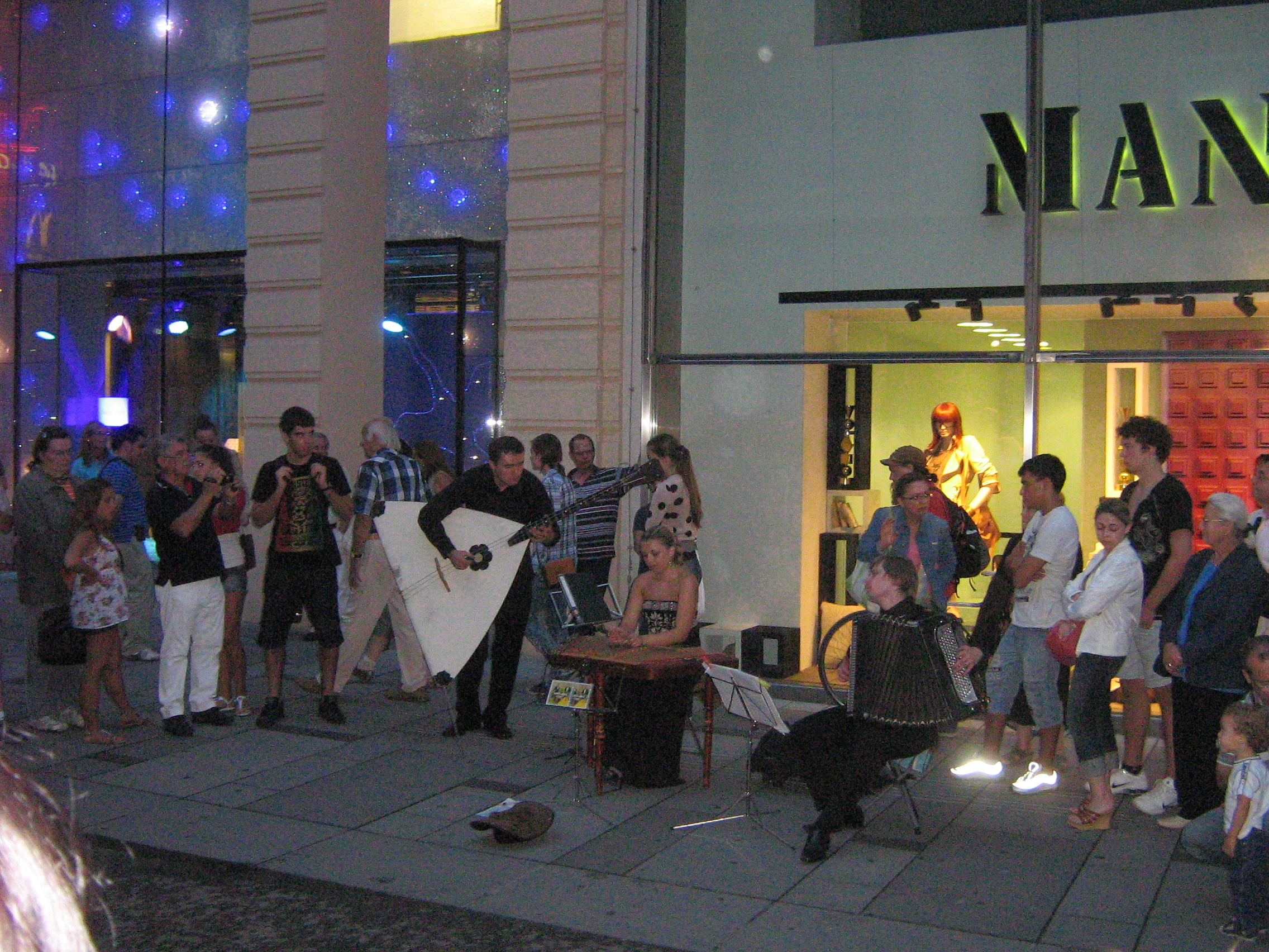 Austria, Vienna, Kärntner Straße